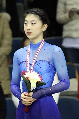 Skate Canada 2015 (Yuka NAGAI JPN – Bronze Medal)